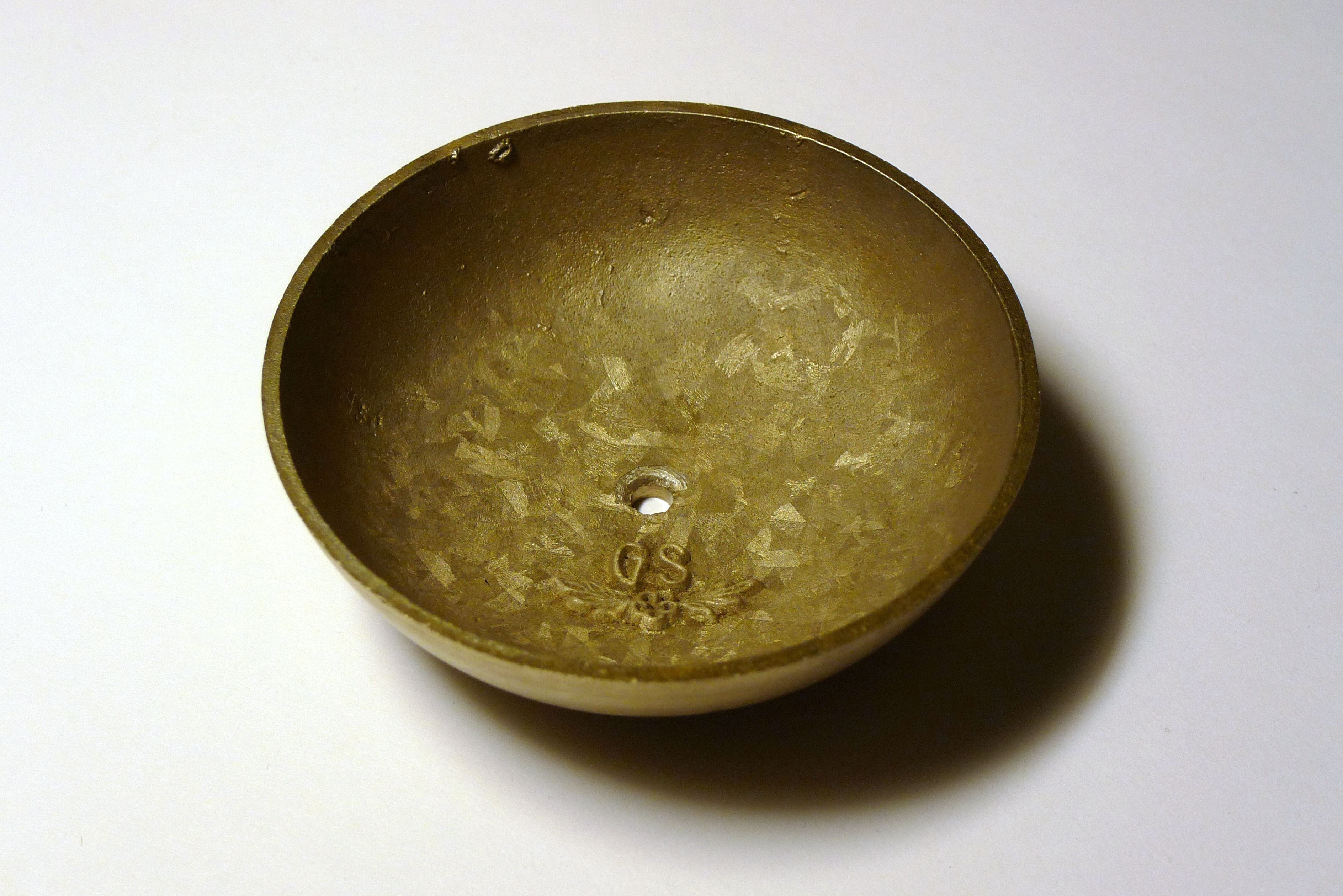 Bronze bell from an old clockwork, with clearly visible crystallite structure on the inside.